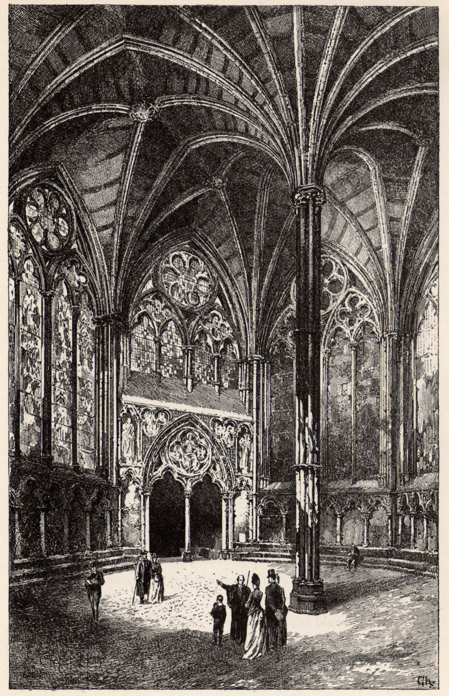 Illustration by Herbert Railton (1857-1910), from A Brief Account of Westminster Abbey (1894) by WJ Loftie